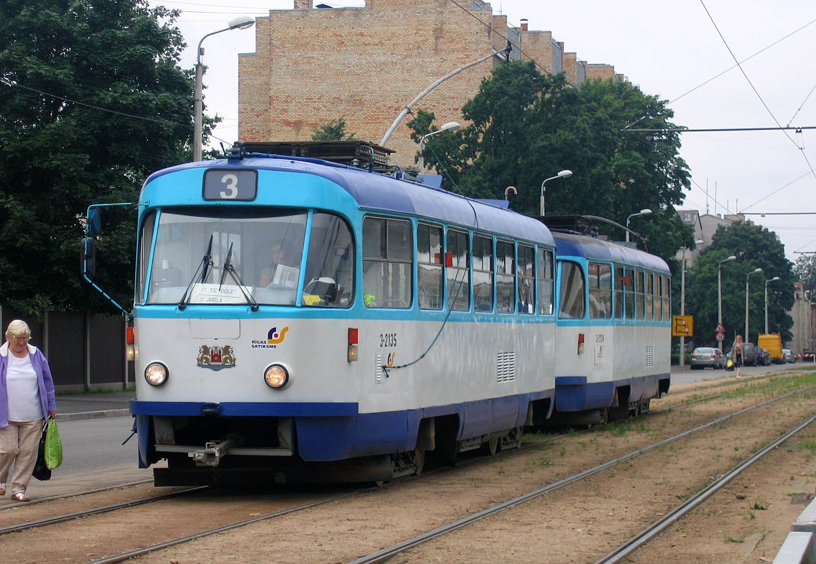 Tram in Riga, Latvia